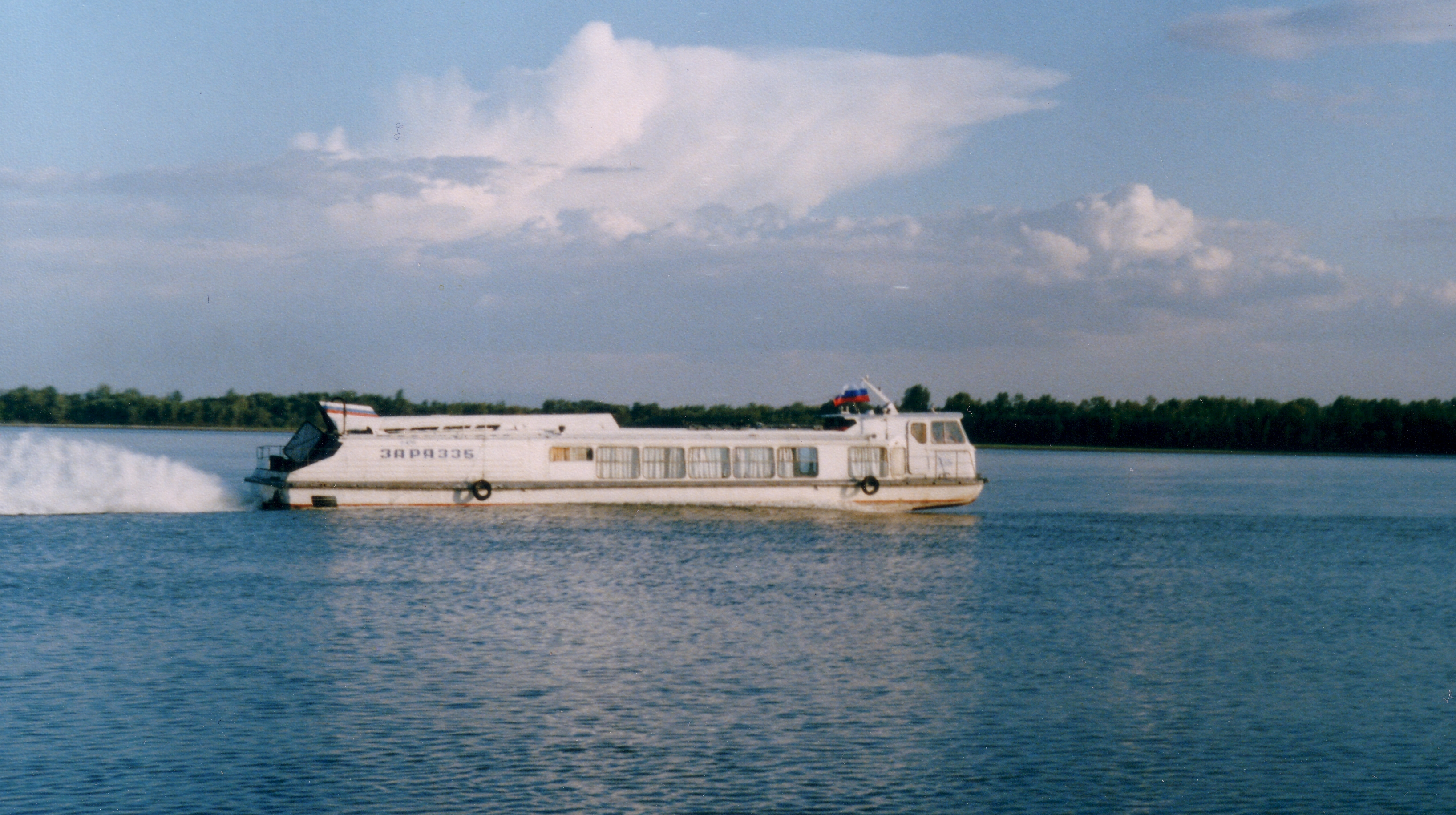 River ship Zarya 335R on Ob River (Altaiskiy kray, Russia)